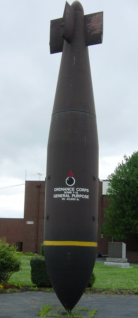 T-12 shell at U.S. Army Ordnance Museum, Aberdeen, MD. Bild:T-12-cloudmaker.jpg